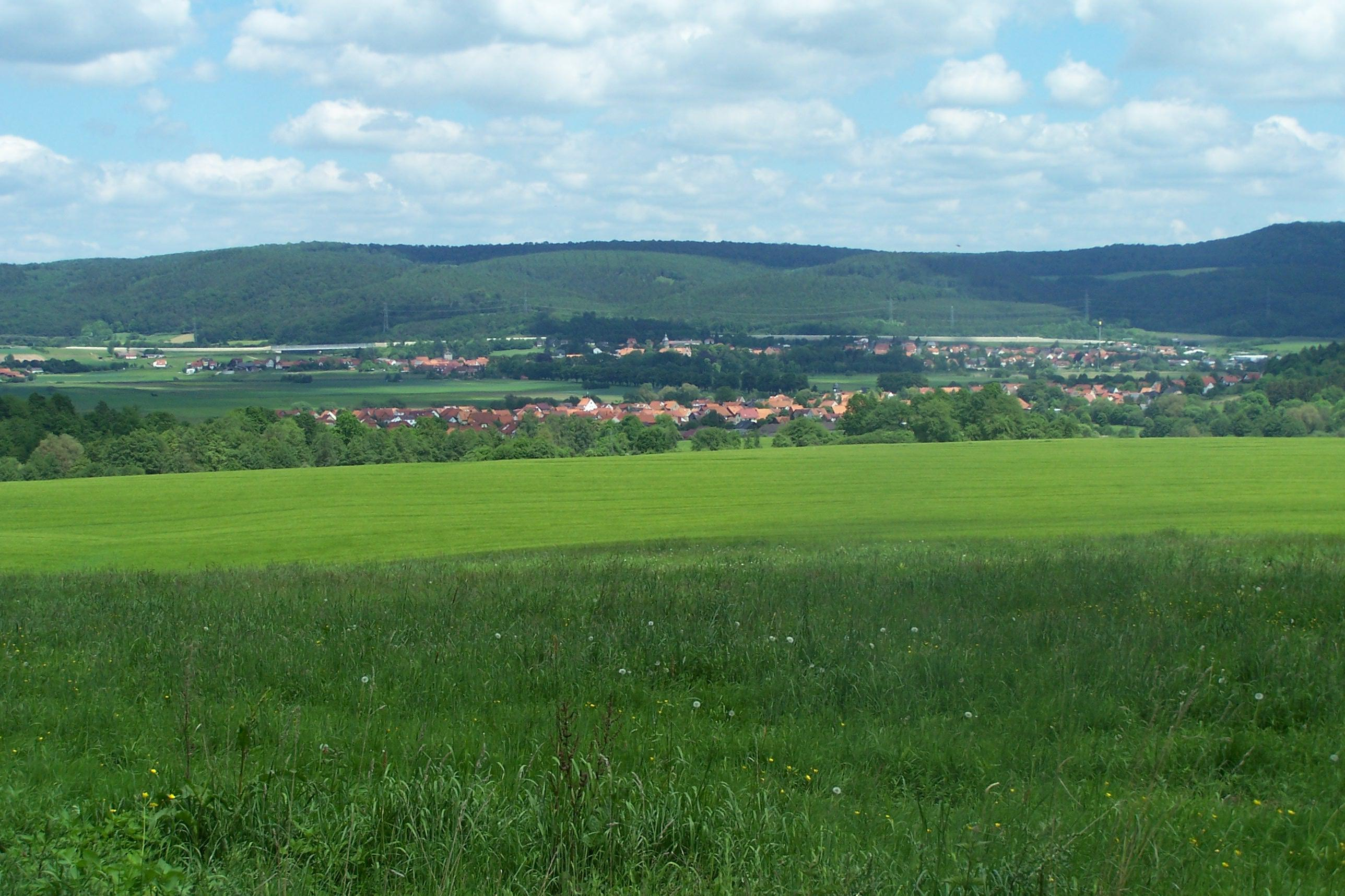 The Werratal valley with Lauchröden and Herleshausen.